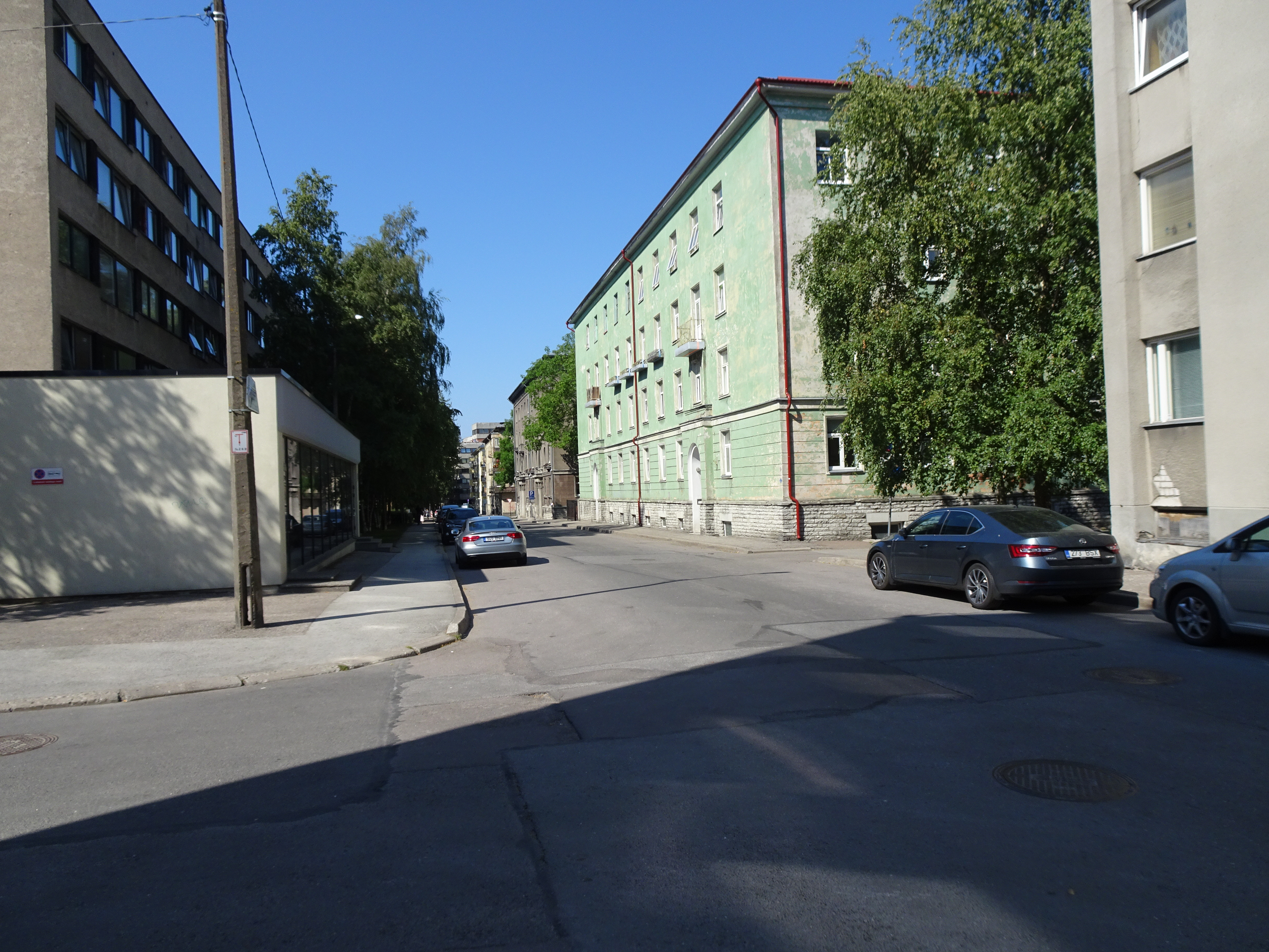 Vase Street (Vase tänav) in Tallinn, Estonia